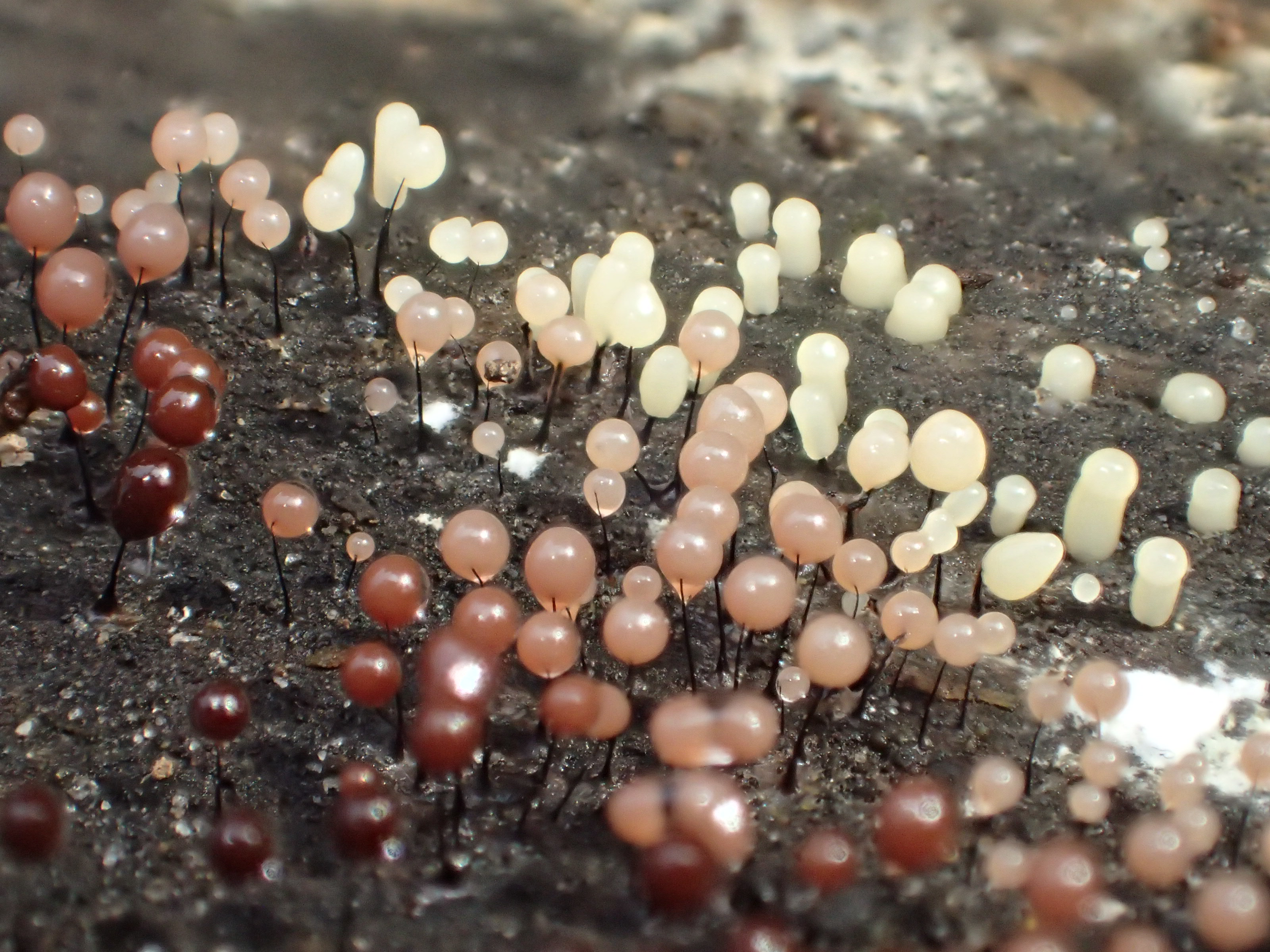 Small fruitbodies of a slime mould